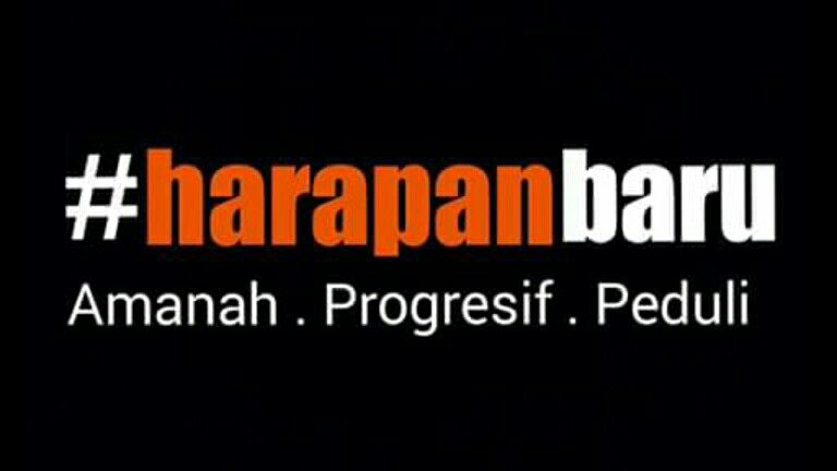 GHB Logo